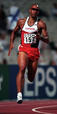 Michael Smith Decathlon 400 meters